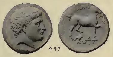 Greek coins and their parent cities (1902) Author: Ward, John, 1832-1912; Hill, George Francis, Sir, 1867-1948 Subject: Coins, Greek; Numismatics, Greek; Greece -- Description, geography; Italy -- Description and travel; Turkey -- Description and travel Publisher: London : Murray Possible copyright status: NOT_IN_COPYRIGHT Language: English Call number: AKB-0671 Digitizing sponsor: MSN Book contributor: Robarts - University of Toronto Collection: toronto Scanfactors: 7